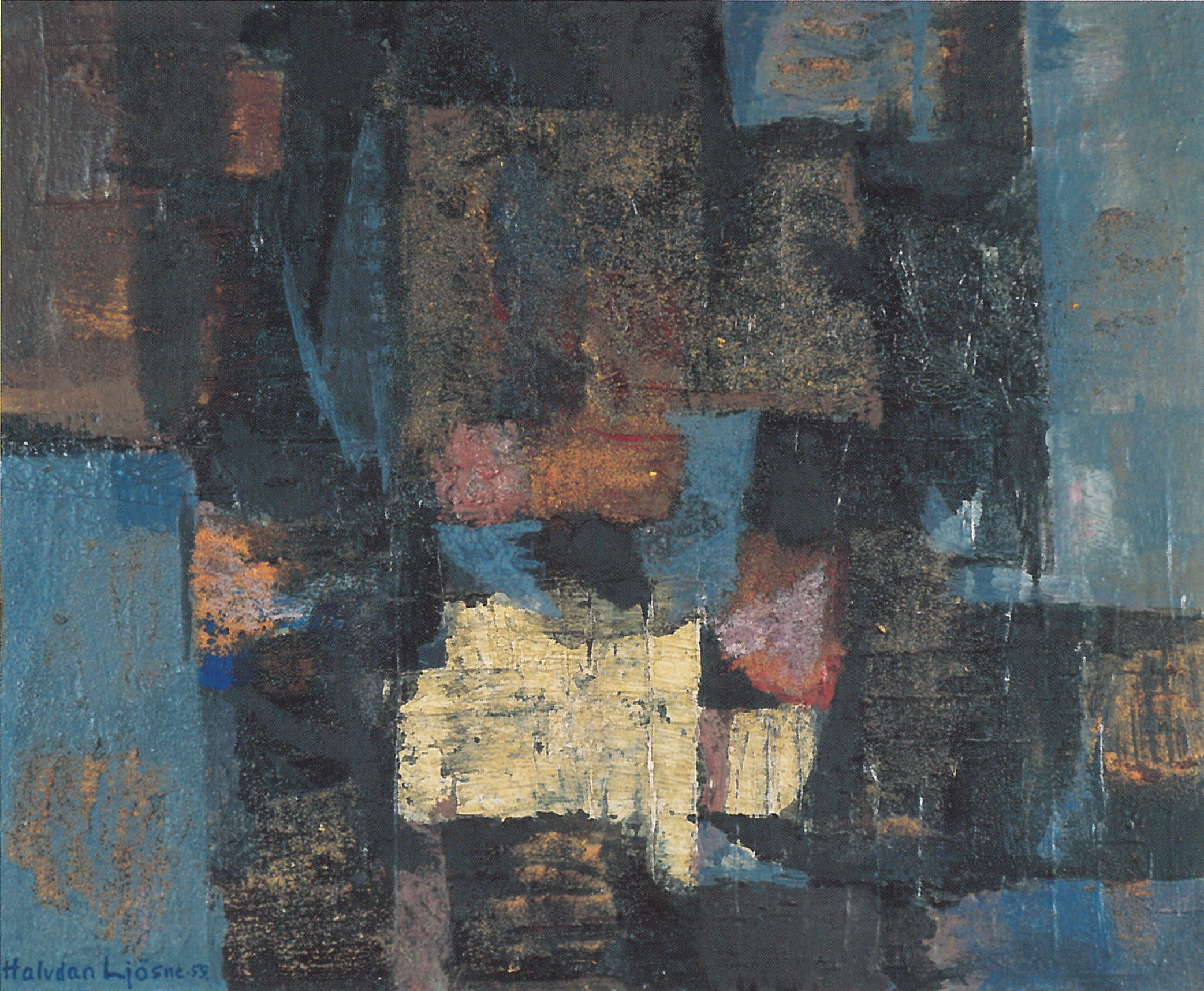 The painting "Komposisjon" (=Composition) by the Norwegian painter Halvdan Ljøsne. 1959. PVA on canvas, 48x62 cm